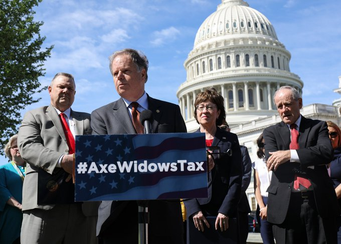 This week I stood alongside my colleagues @SenatorCollins, @SenatorTester, & @SenatorRisch to #AxeWidowsTax & support our military families. Eliminating the Widows Tax is just the RIGHT thing to do. @TAPSorg @VFWHQ